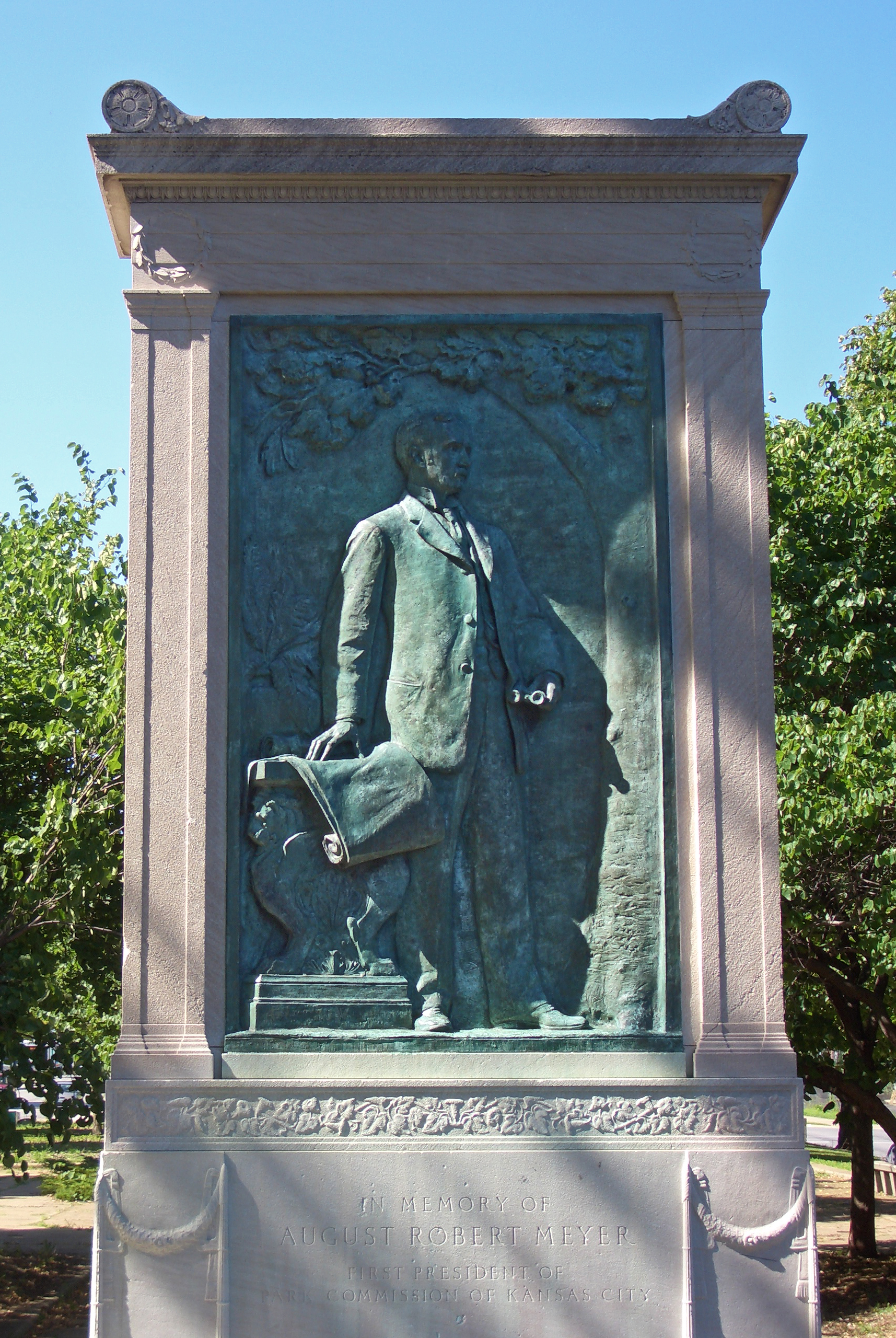 Bas-relief sculpture of August Robert Meyer by Daniel Chester French (1850-1951), American sculptor in Kansas City, Missouri